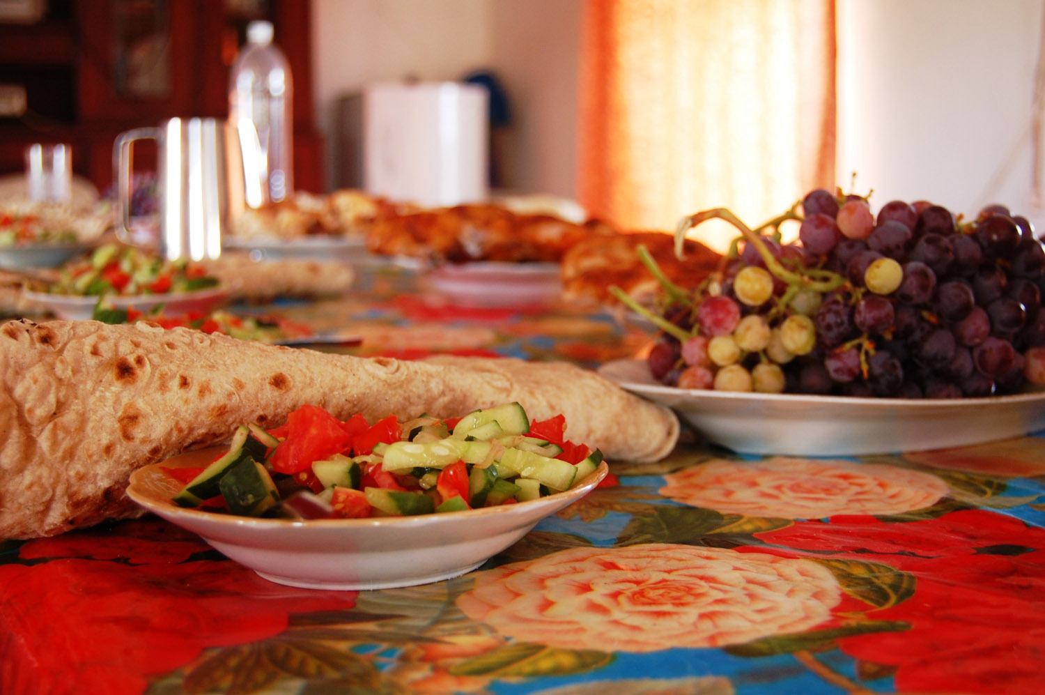 While visiting a sheik's home on, July 9, to discuss essential services and business grants, soldiers from Company B, 1st Battalion, 27th Infantry Regiment "Wolfhounds," 2nd Stryker Brigade Combat Team "Warrior," 25th Infantry Division, Multi-National Division – Baghdad, were treated to lunch in the Taji Qada, northwest of Baghdad.